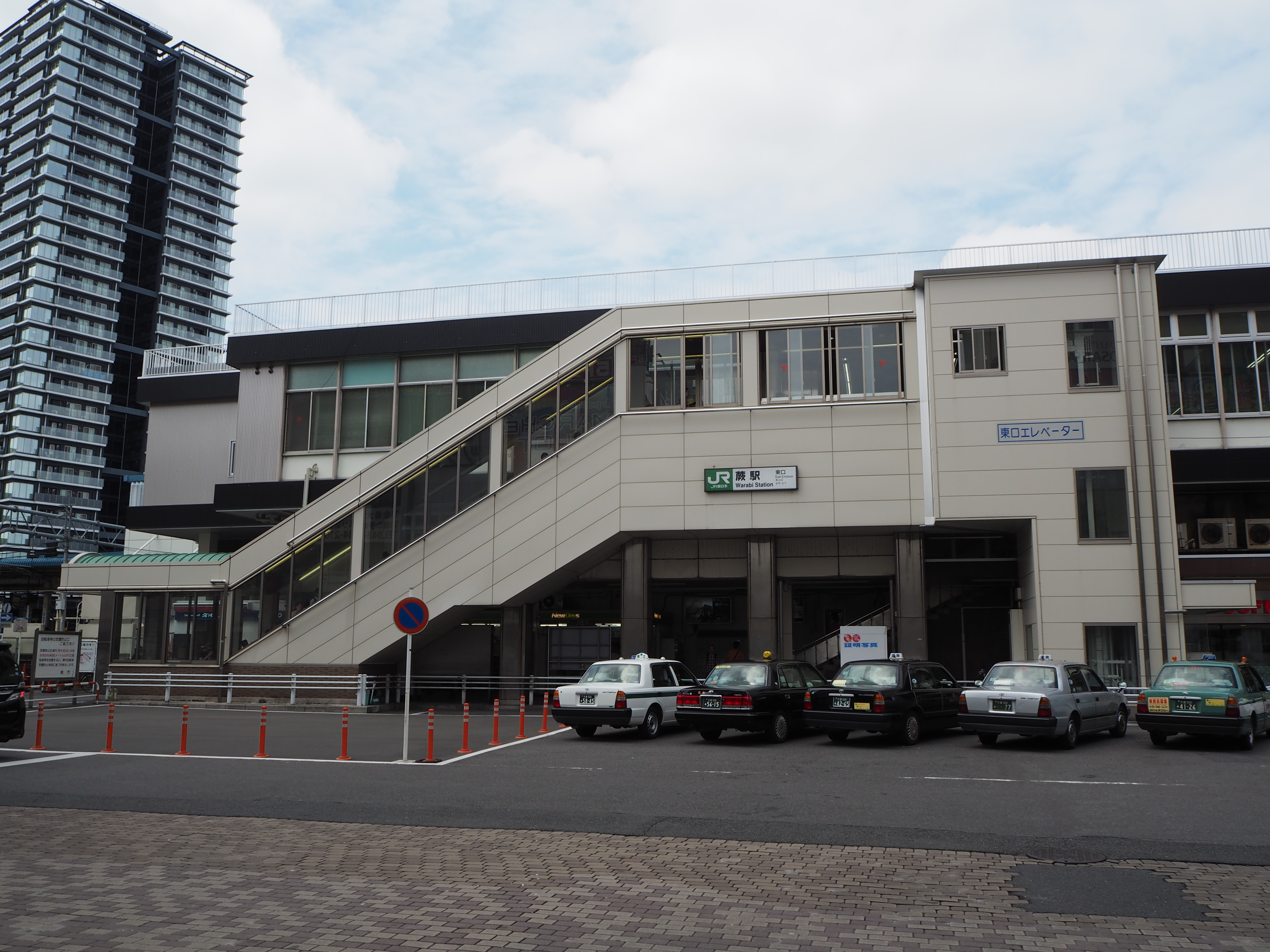 East entrance of Warabi Station